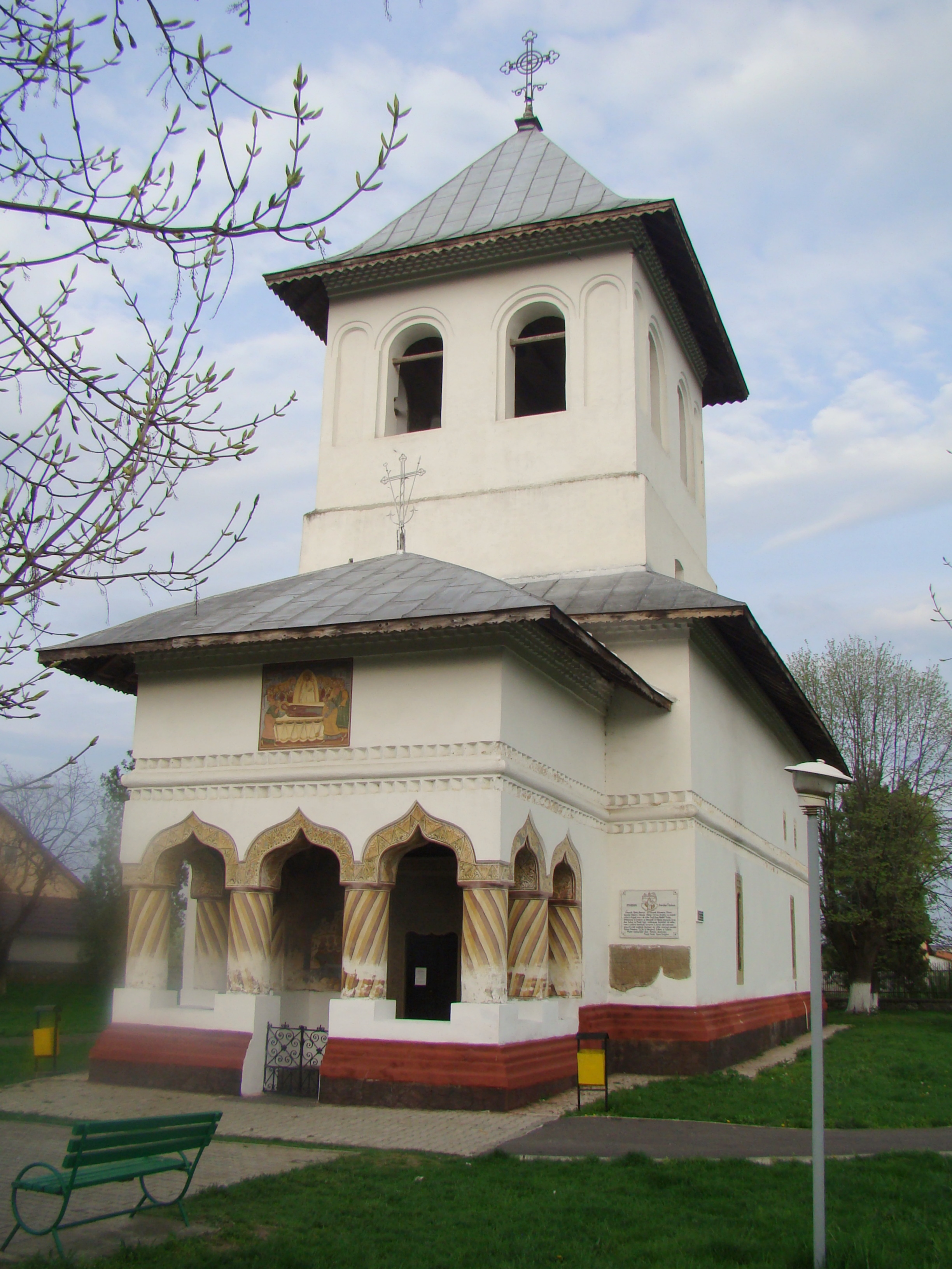 Church of the Dormition in Târgu Jiu, Gorj county, Romania